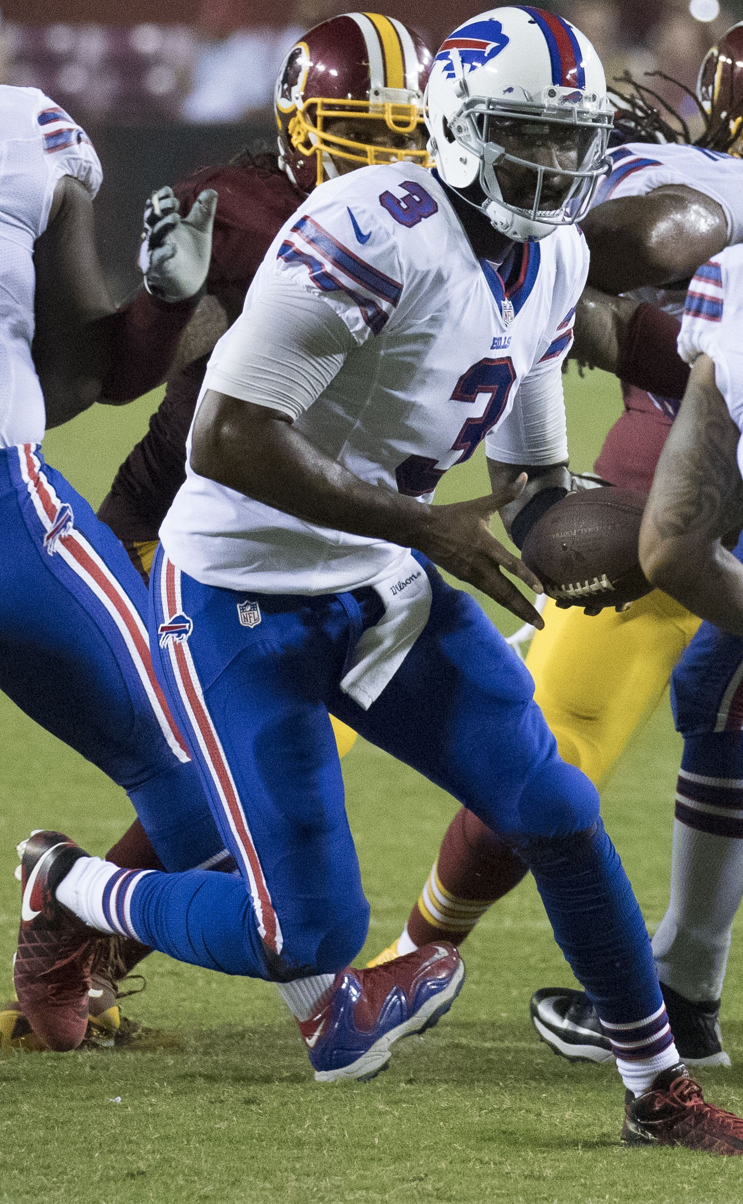 Bills at Redskins 8/26/16